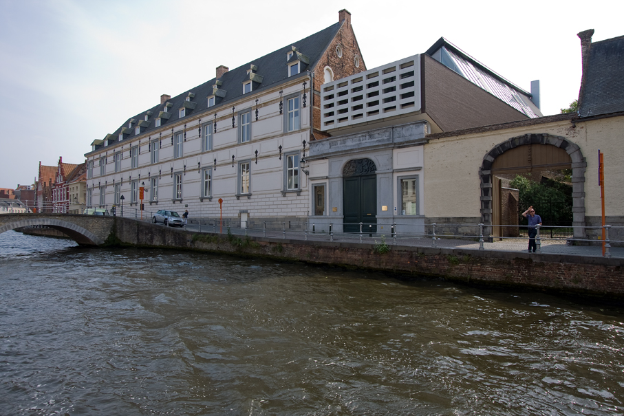 College of Europe, Verversdijk campus